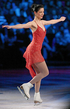 Jennifer Robinson| skates in an exhibiton program at the 2004 Canadian Stars On Ice show in Hamilton, Ontario.